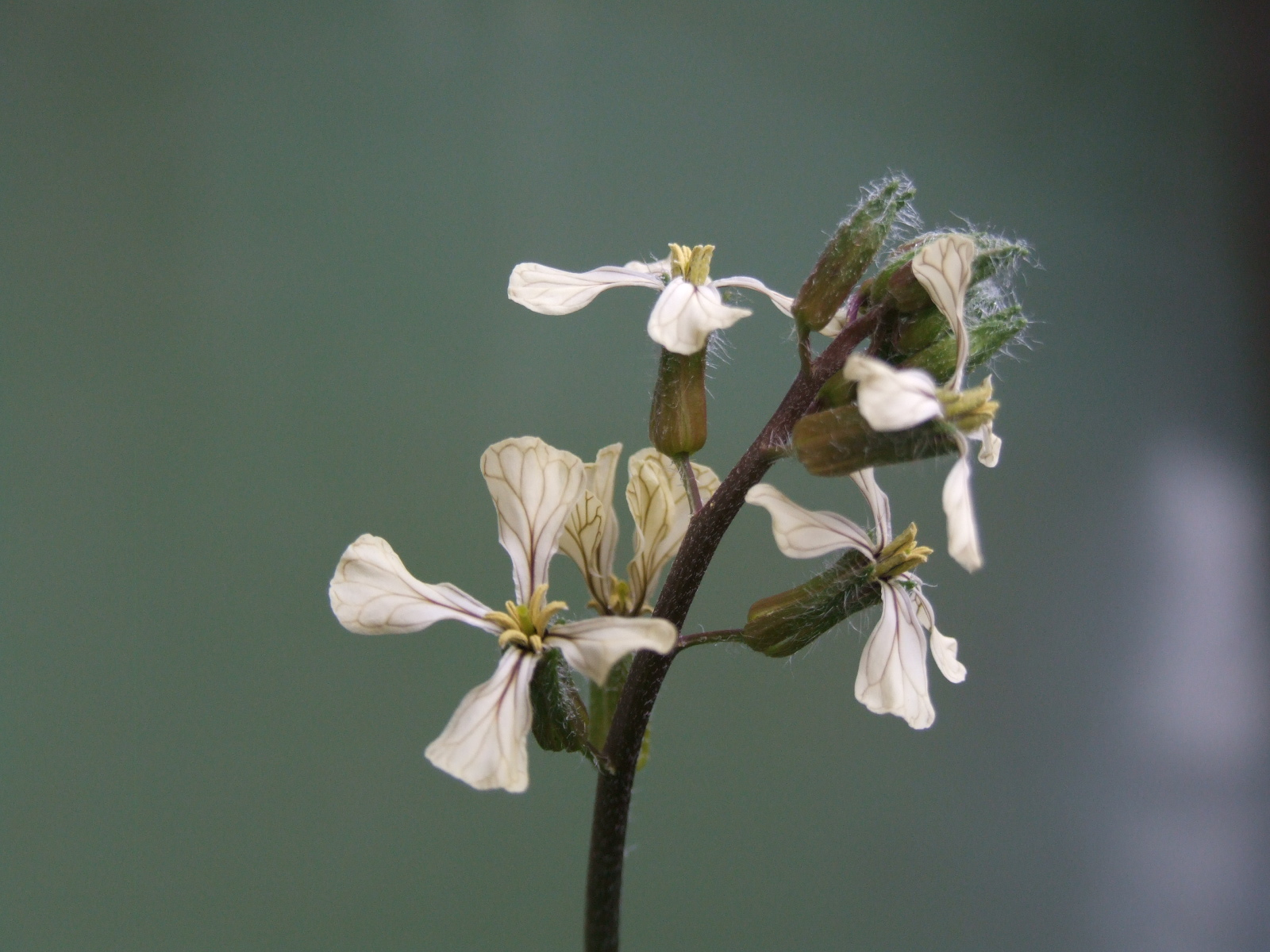 Flowers of Radish. Raphanus sativus var. sativus. Cultvated in Sendai, Miyagi prefecture, Japan.